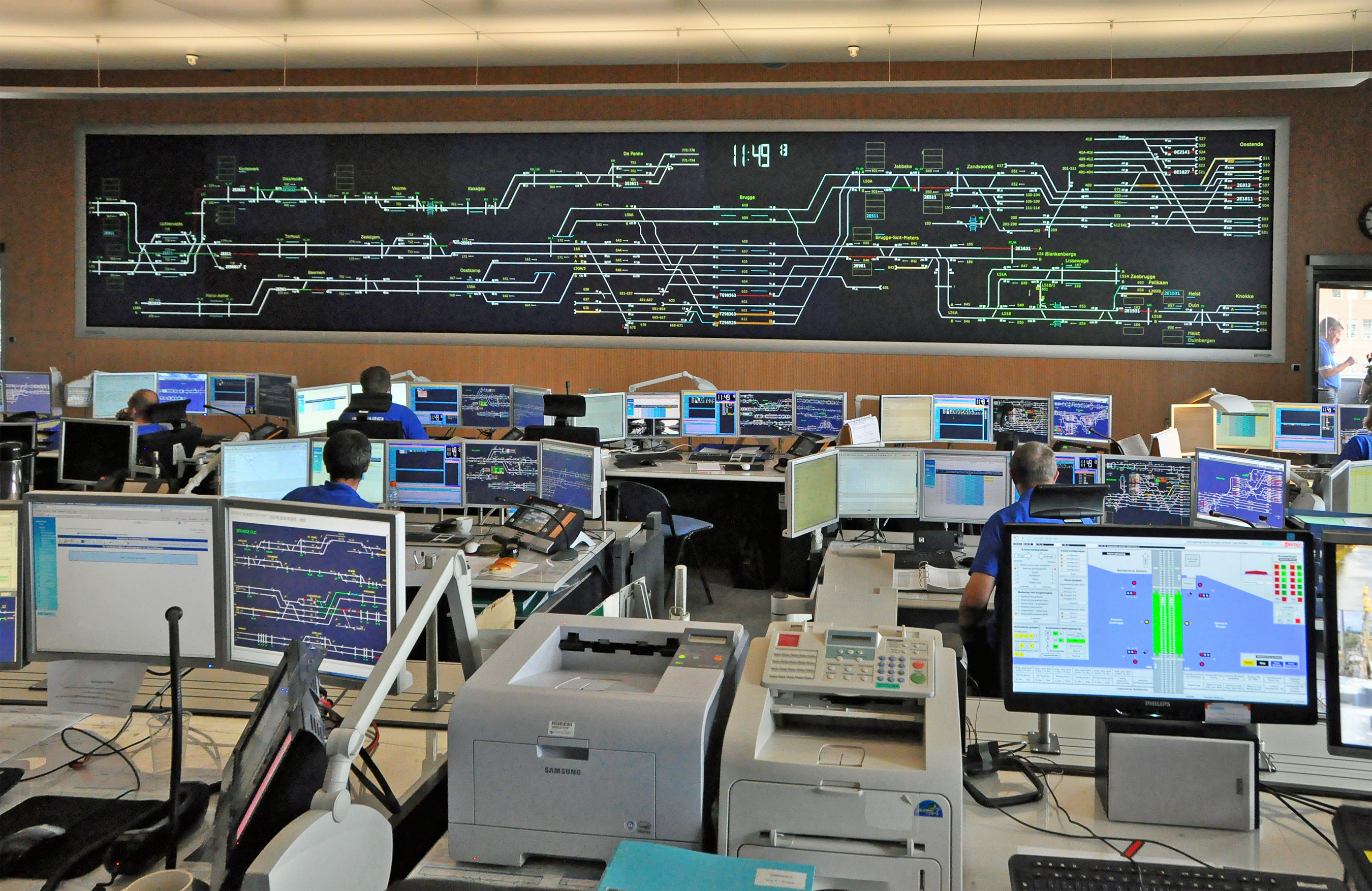 Bruges (Belgium): new railway signalling centre - interior